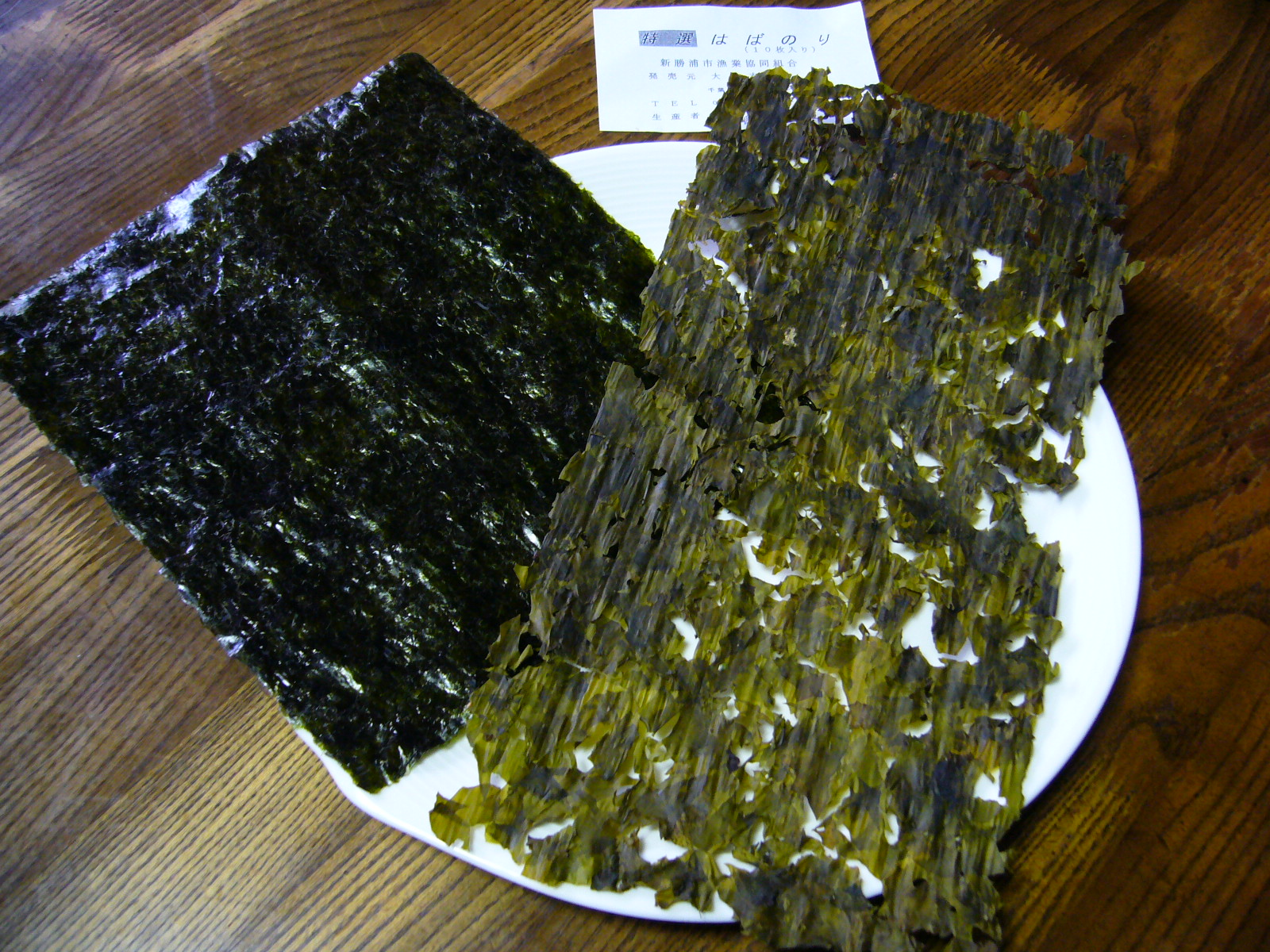 P. binghamiae(right) and P. tenera,Haba-nori,Katsuura-city,Japan